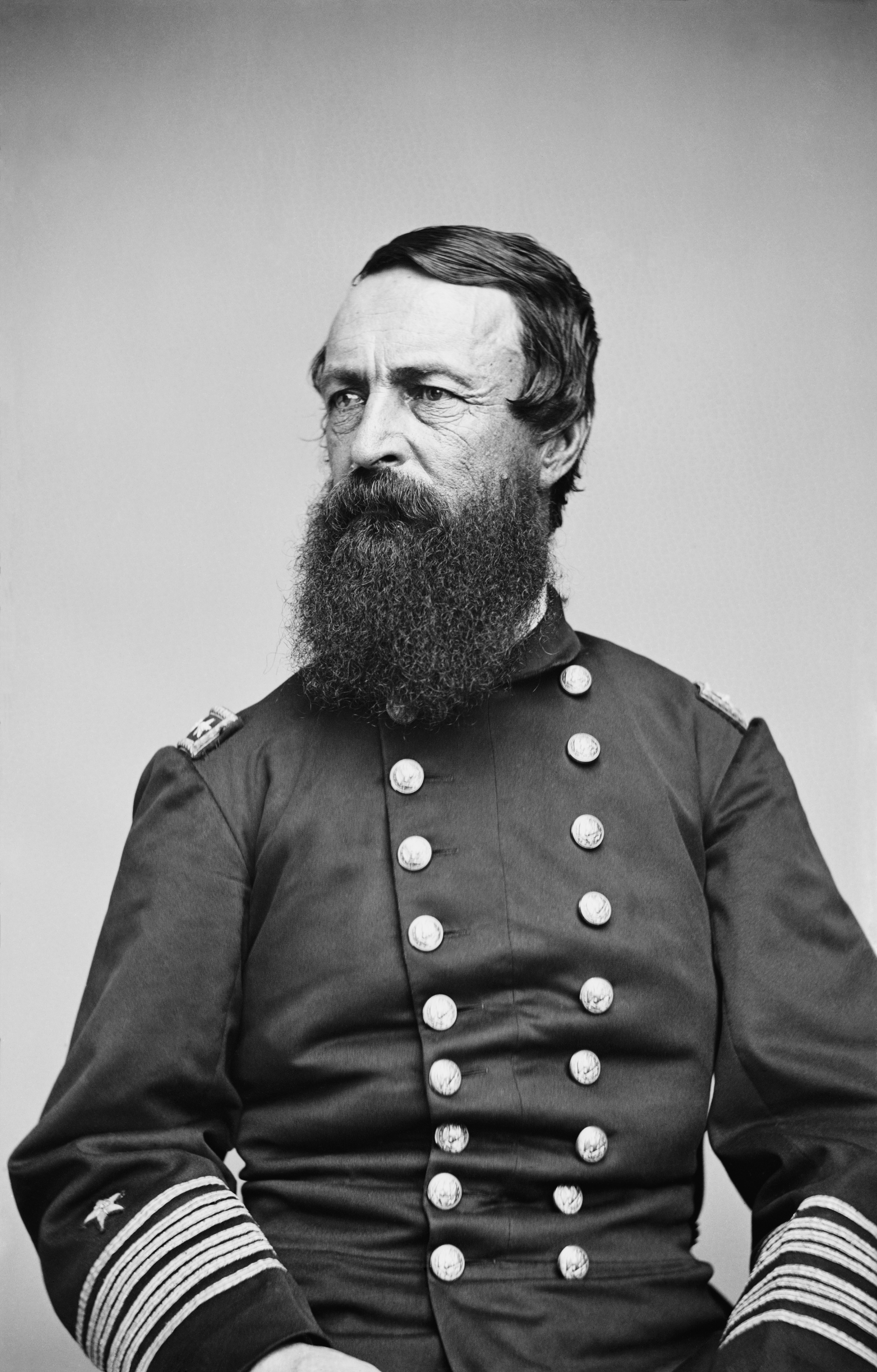 Wet collodion negative portrait of Rear Adm. David D. Porter, officer of the Federal Navy, by the Brady National Photographic Art Gallery. Restoration by Adam Cuerden, of the usual "remove dust and other damage, and repair the edges" sort.